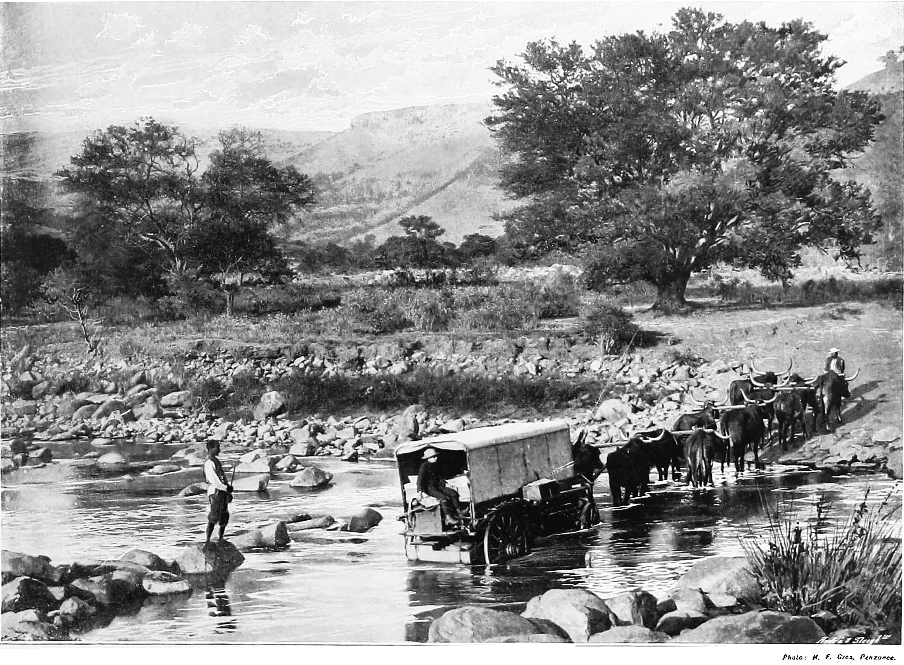 CROSSING A SOUTH AFRICAN DRIFT. "Here we have a representation of a scene familiar to every traveller in South Africa. One of the long, covered carts which convey the property of a family, and are the only means of conveyance in many districts, is being laboriously dragged by a long team of oxen through a ford or "drift" on the Eland river. These Cape waggons are sometimes longer and more imposing in their dimensions than the specimen shown in the picture, and the teams by which they are dragged are increased in measure corresponding to the burden. It is in such waggons that the Boer "treks" take place, and it is probable that this rough but roomy conveyance will hold its own upon the South African veldt for many a year, despite the advance of the railway and the gradual extension of properly metalled roads."